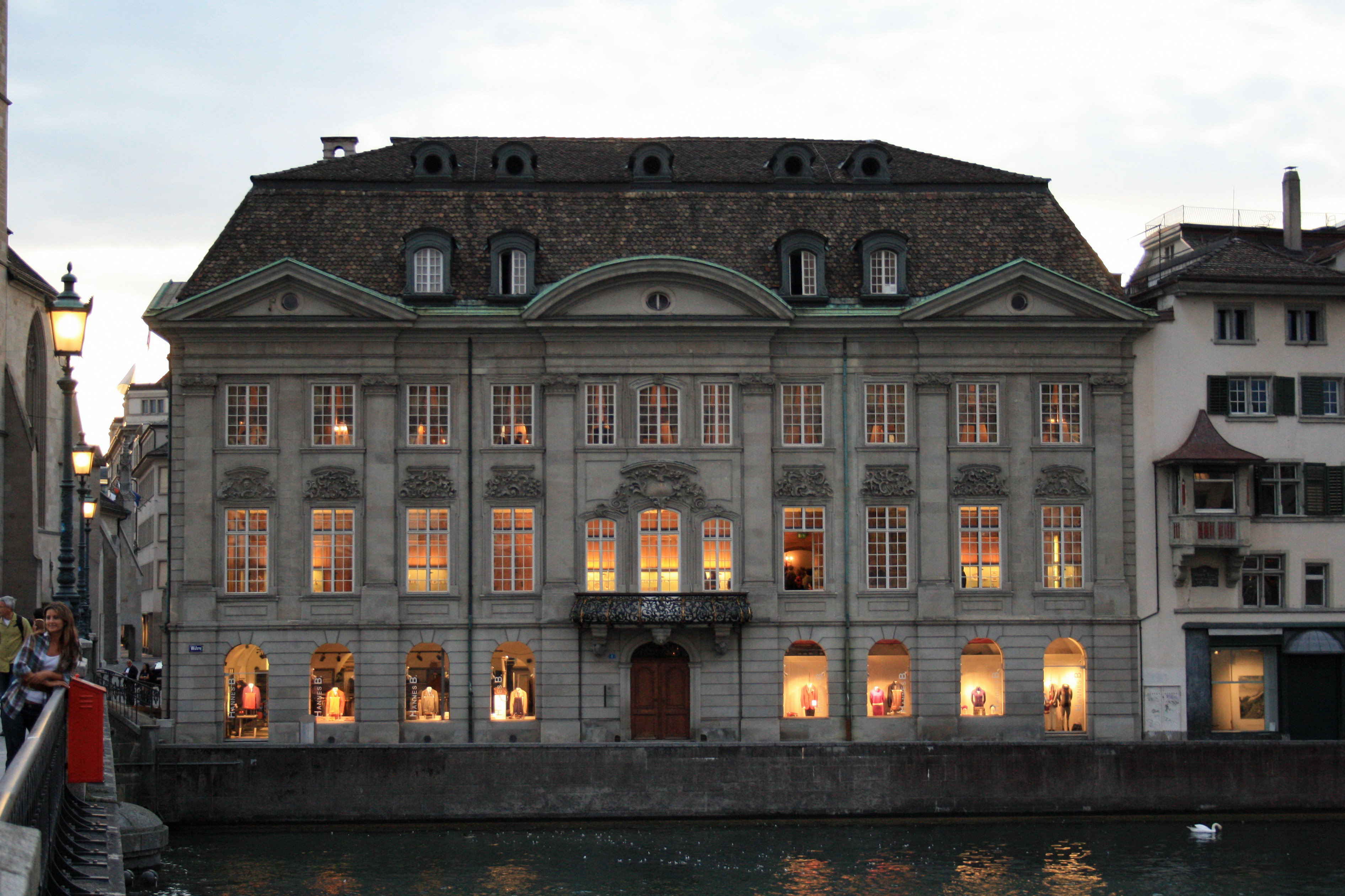 Zunfthaus zur Meisen in Zürich (Switzerland) as seen from Münsterbrücke.